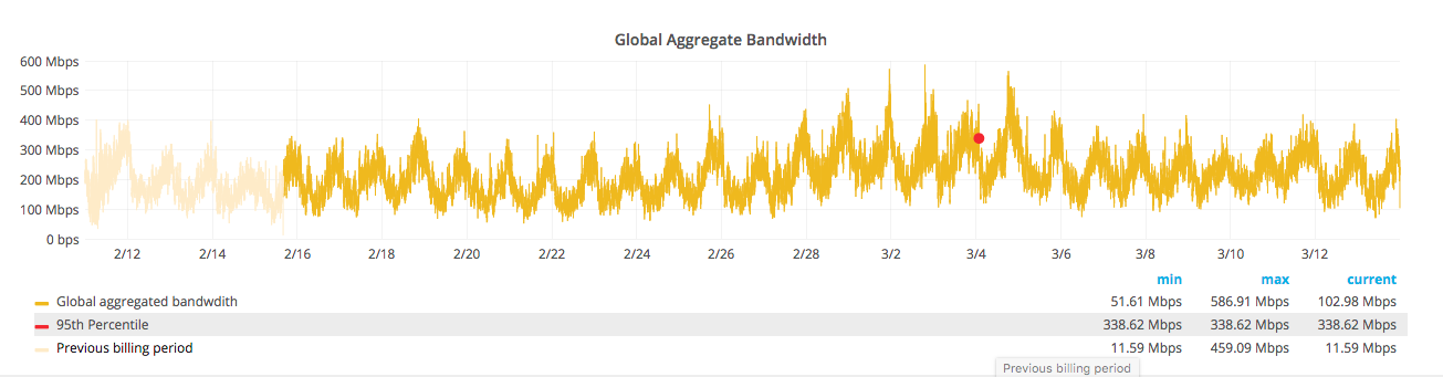 Bandwidth graph with 95th percentile measurement